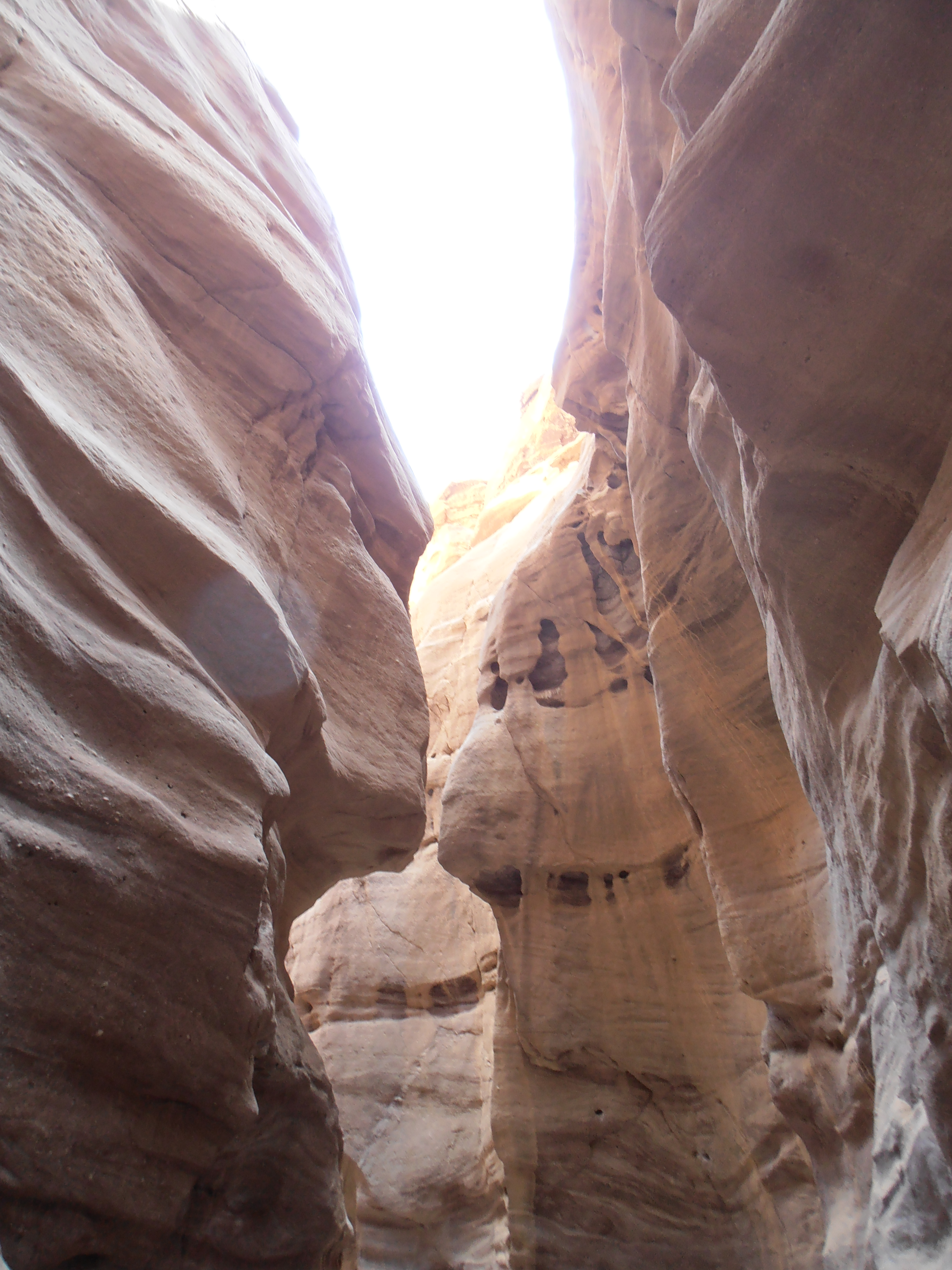 Geography of Israel